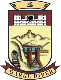 Coat of arms of Dibër County, Albania